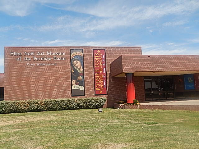 I took photo of Ellen Noel Art Museum in Odessa, TX, with Nikon camera.